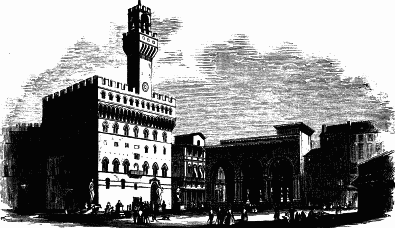 Palazzo Vecchio, Florence